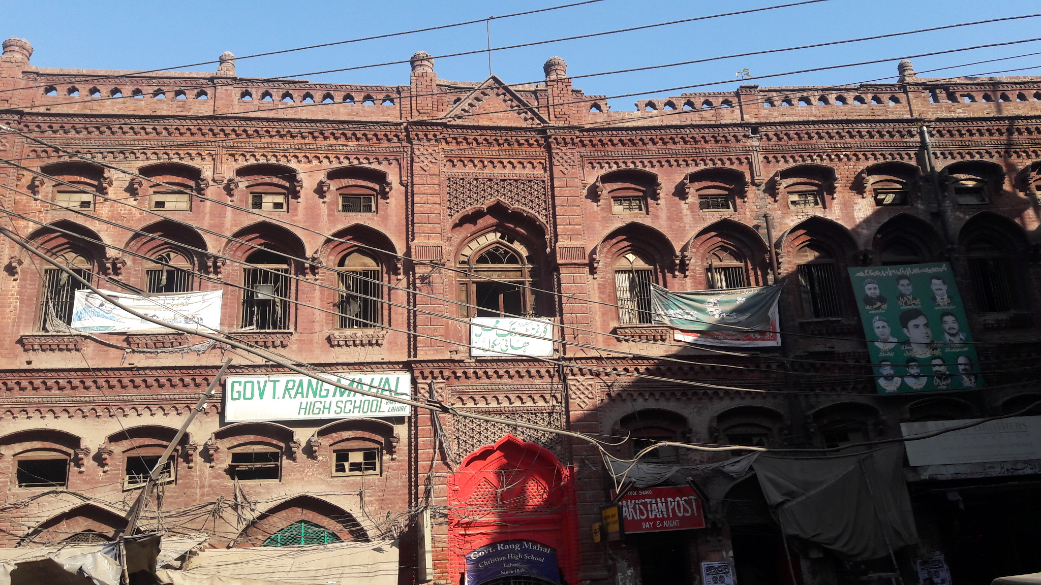 Govt. Rang Mahal High School, Lahore